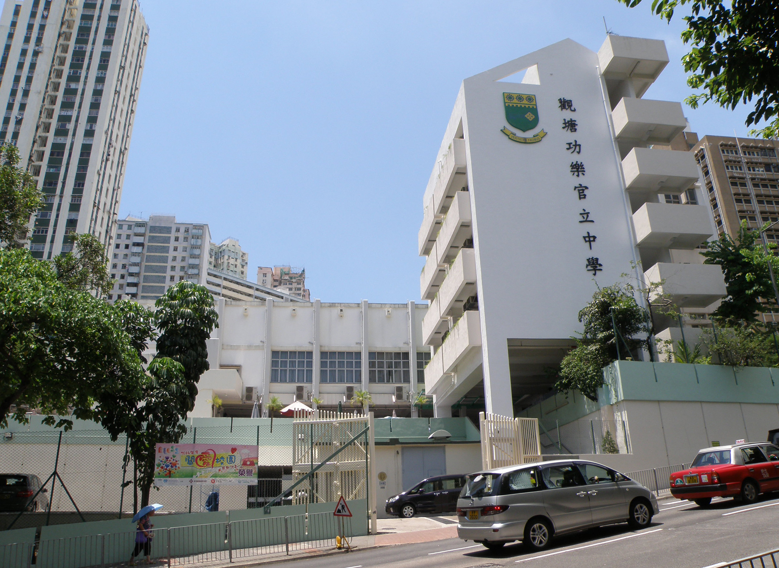 Kung Lok Government Secondary School in Kwun Tong, Hong Kong.